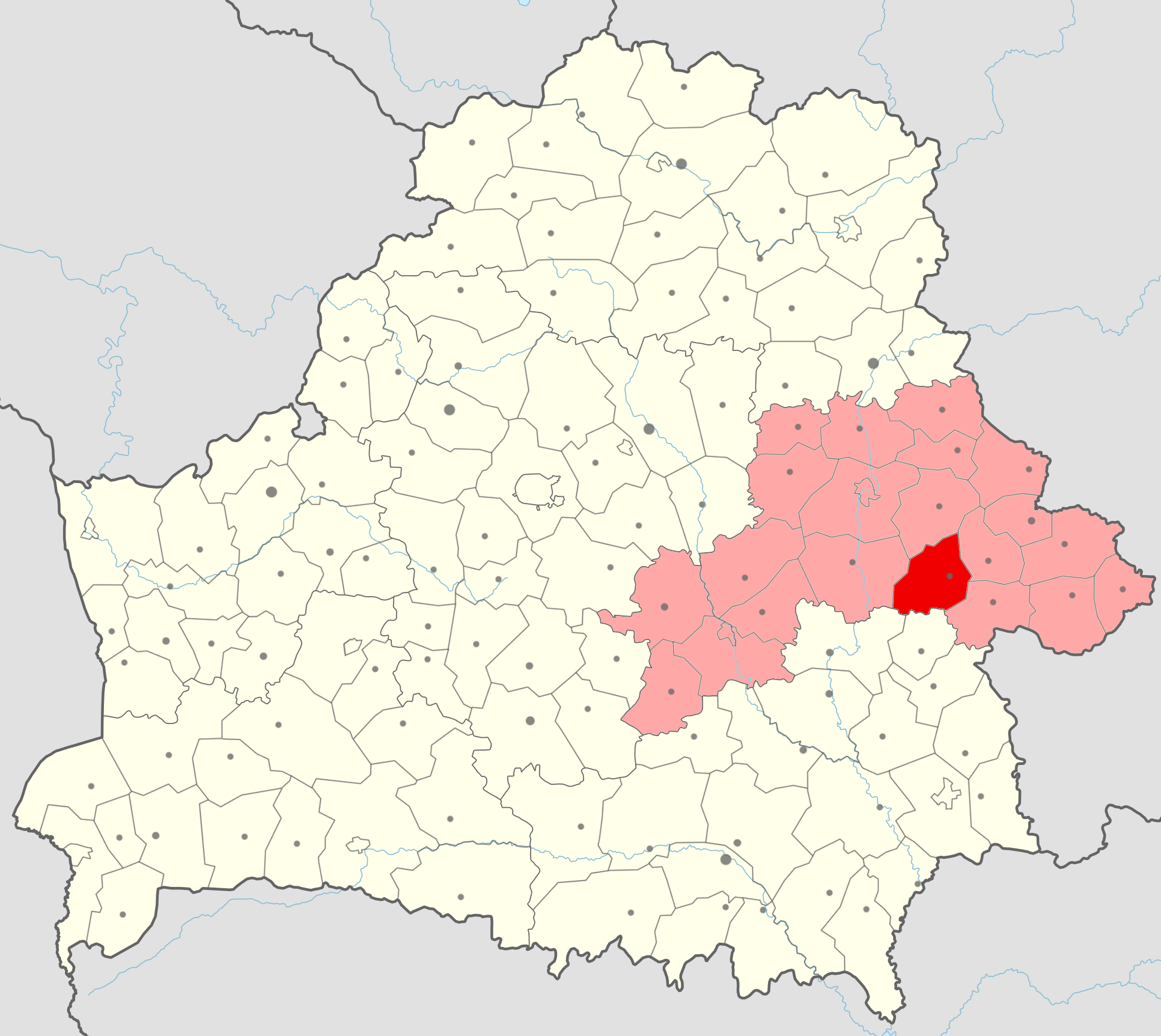 Location of Slaŭharadski rajon (red) in Mahilioŭskaja voblasć (light red) in Belarus.